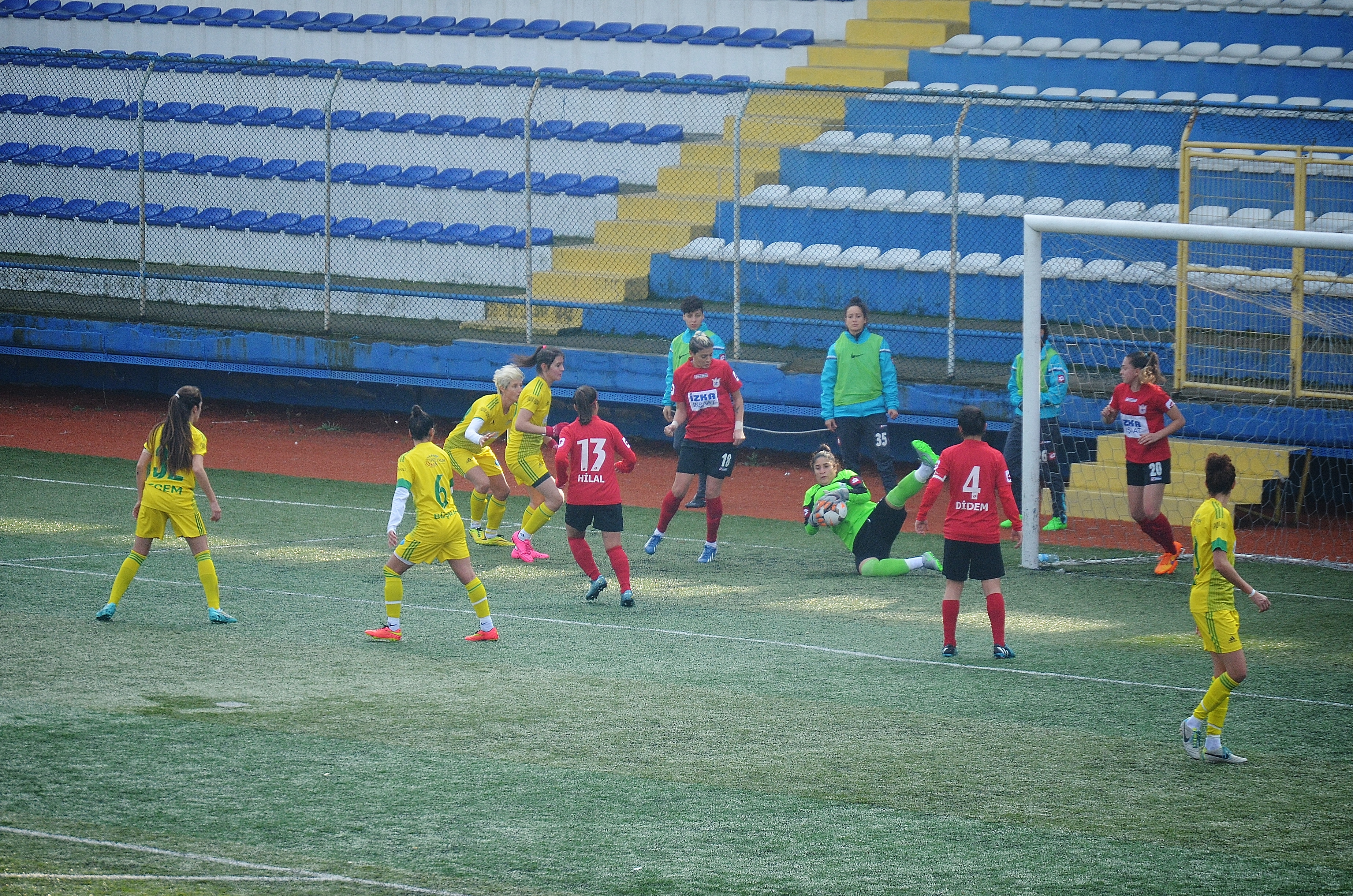 Sude Mihri Çınar saving the ball for Konak belediyespor in the 2015-16 season